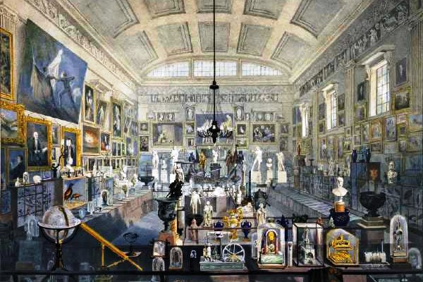 The Mechanics' Lecture Hall, later known as Albert Hall, was for many years used as a theatre in Derby